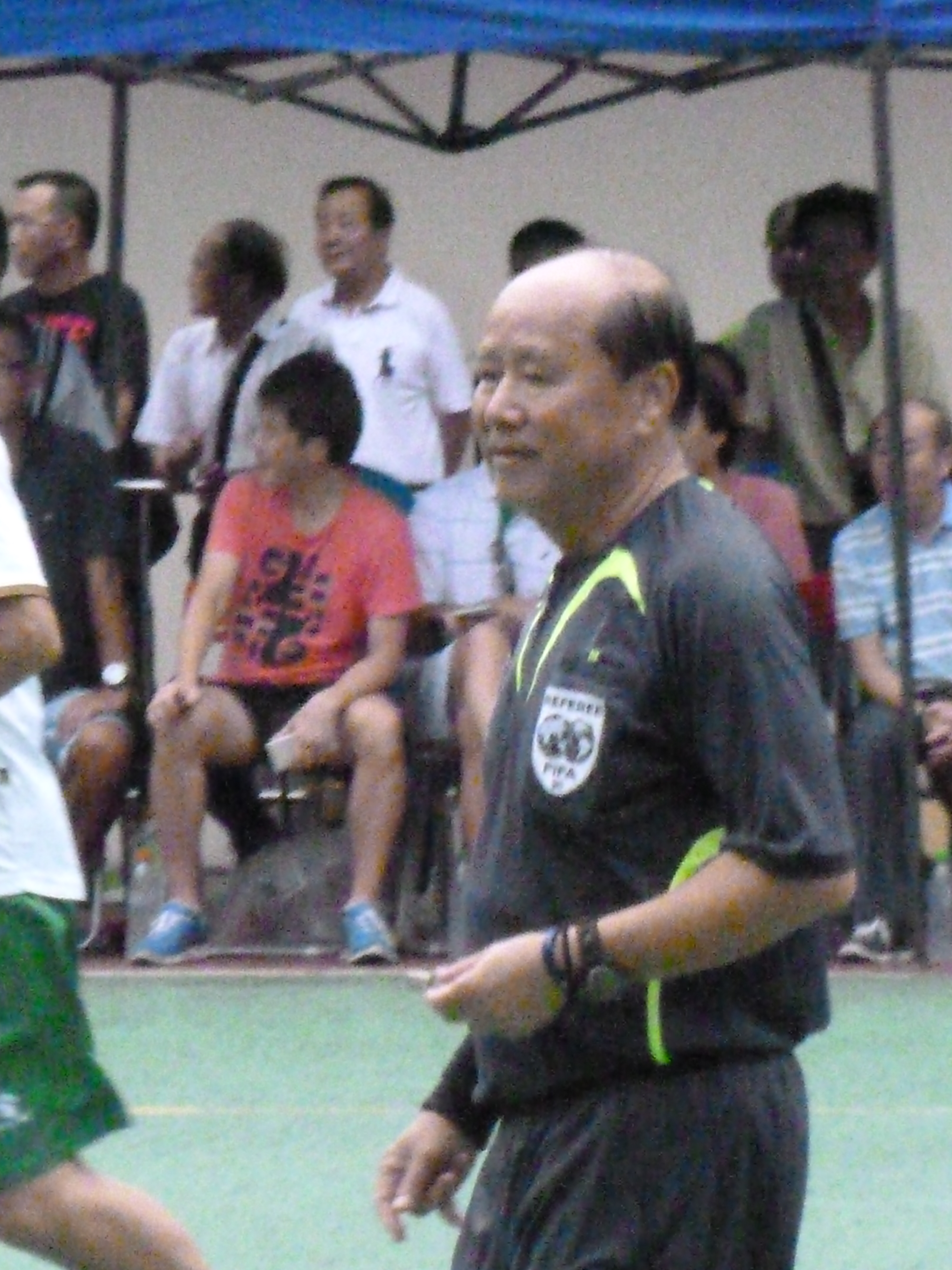 Thomson Chan Tam-Sun (16 Aug 2015, memorial matches of Wu Kwok Hung, Macpherson Playground) 中文（香港）: 陳譚新 (16 Aug 2015, 胡國雄紀念賽, 麥花臣遊樂場)